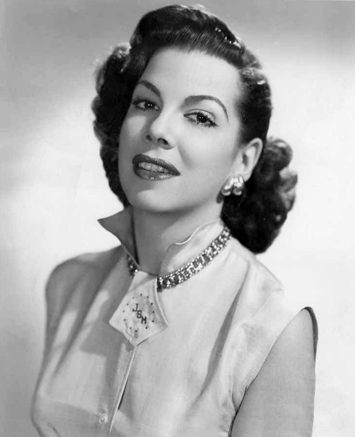 Photo of actress-author Jacqueline Susann.